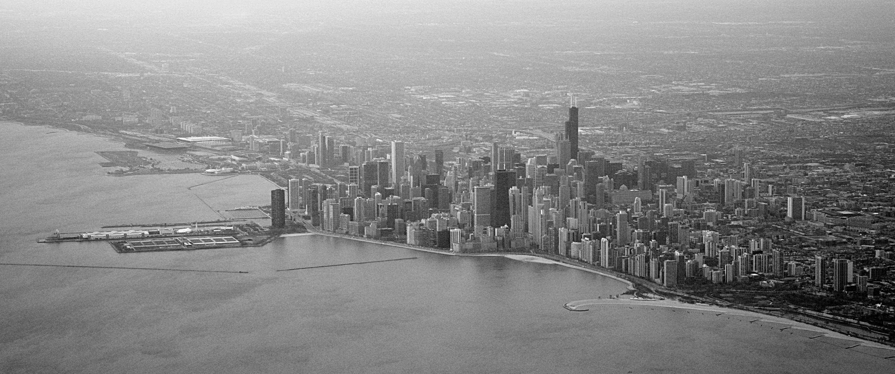 Downtown Chicago from the air.